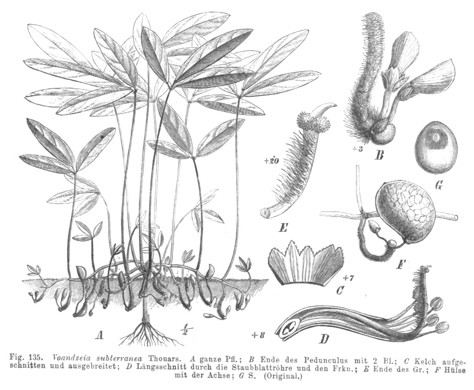 Illustration from book Vigna subterranea